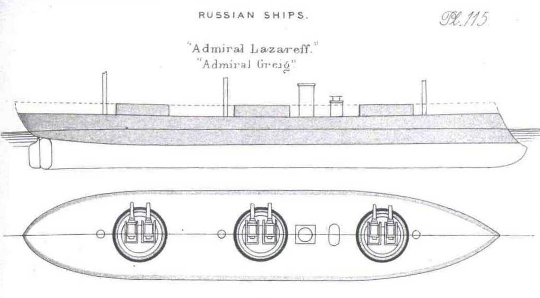 Russian turret ship Admiral Lazarev, serving 1869-1907.